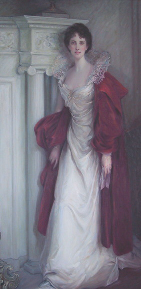 Portrait of Winifred, Duchess of Portland (Winifred Dallas-Yorke)